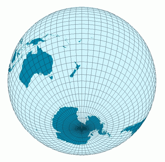 Water hemisphere